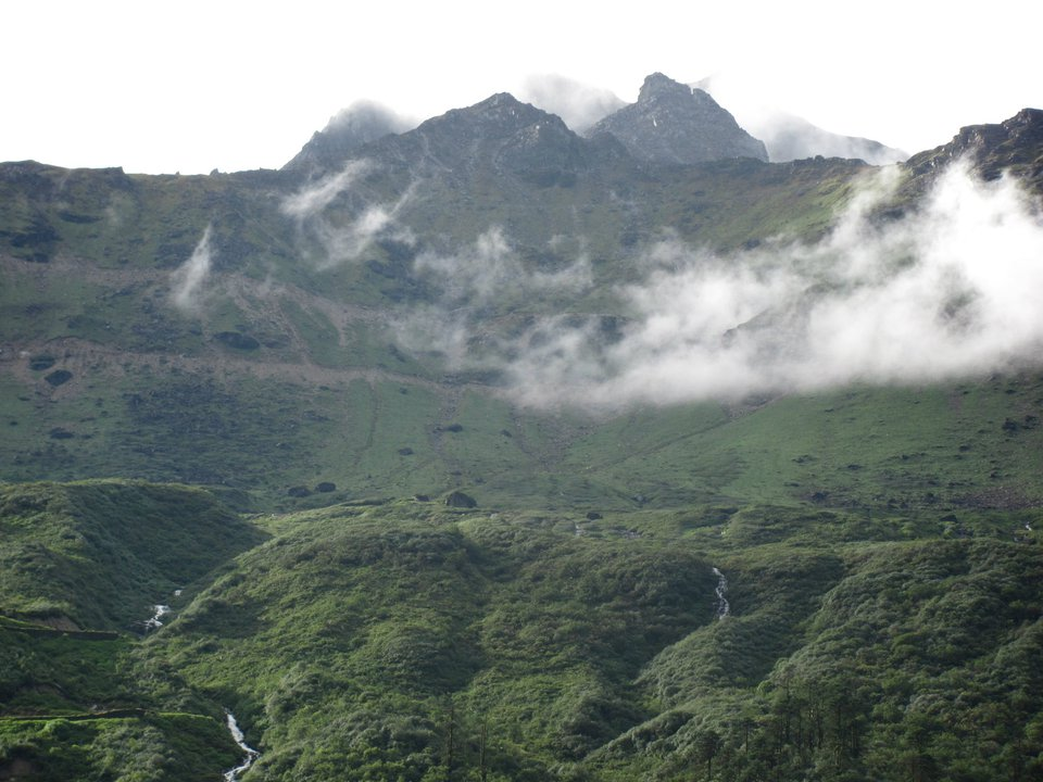 Flora and Fauna at Darjeeling